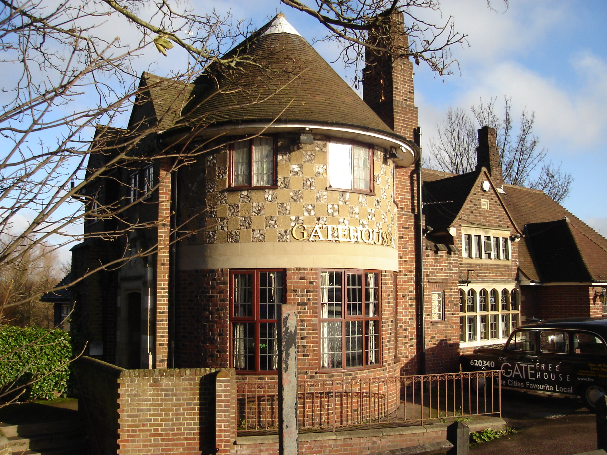 The Gatehouse Pub is located at the junction of Hellesdon Lane and Dereham Road, Norwich. The River Wensum flows to the rear of the property.